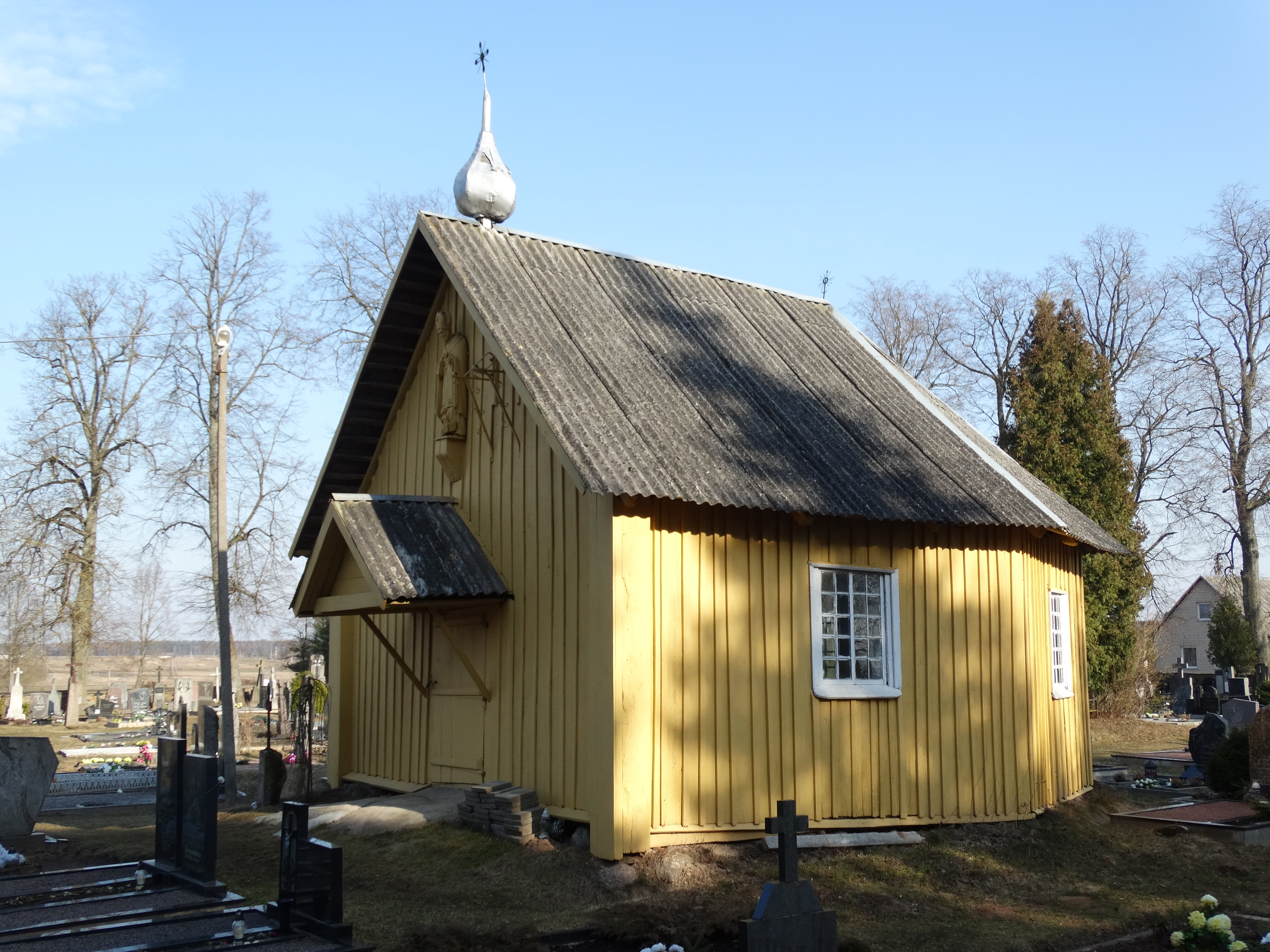 Cemetery chapel, Raguva, Panevėžys district, Lithuania